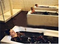 Naftalan oil deposit, Azerbaijan